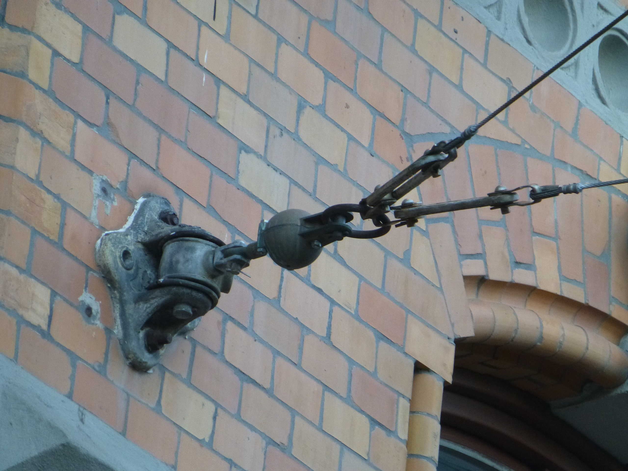 Overhead line rosettes for trams at Järntorget in Göteborg.